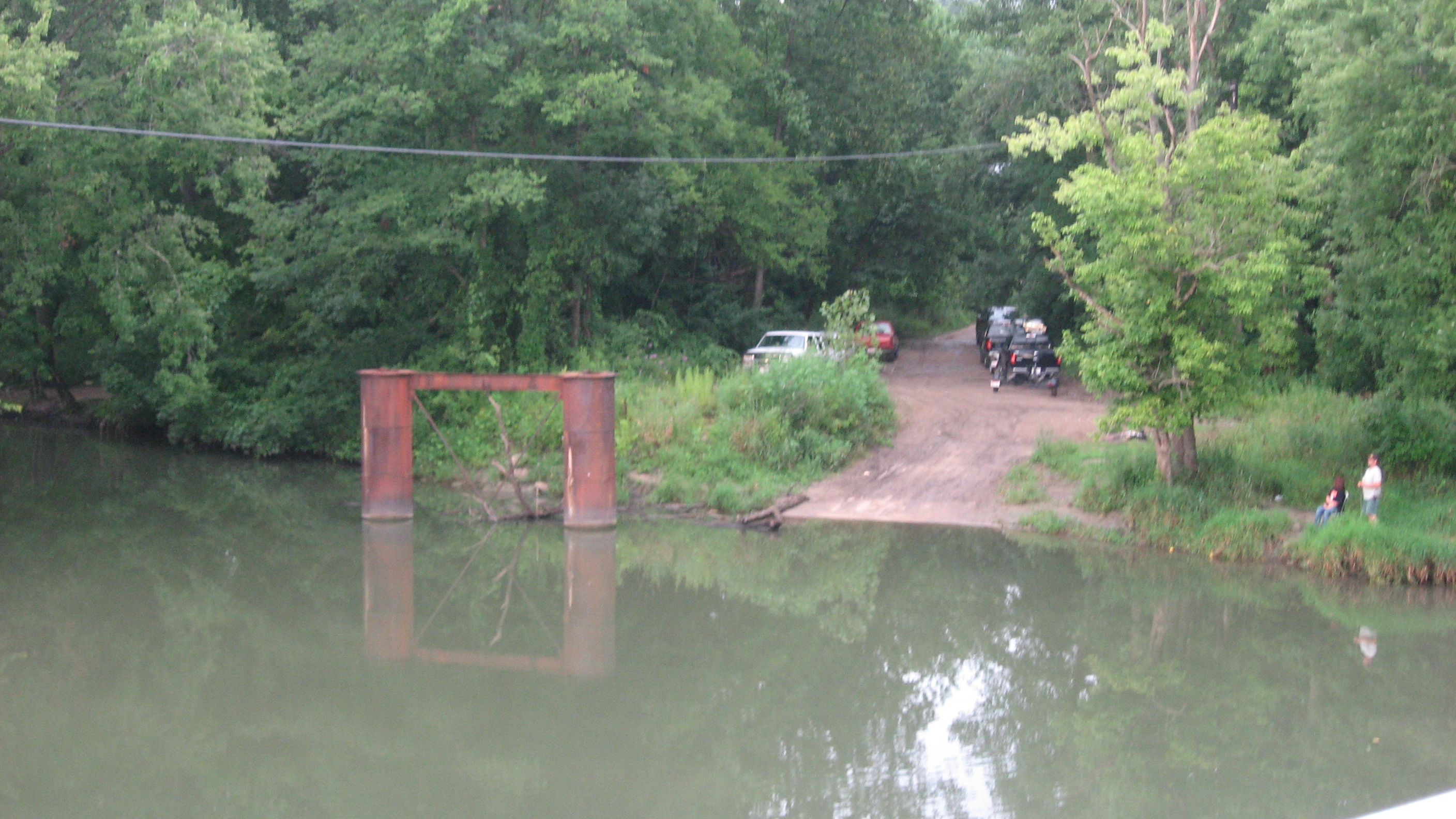 Overview from the south of the site of the Harrison Street Bridge, which formerly carried Harrison Street over the Embarras River east of Charleston in Ashmore and Charleston Townships of Coles County, Illinois, United States. Built in 1898, it was listed on the National Register of Historic Places in 1981, and despite its destruction, it has not yet been removed.